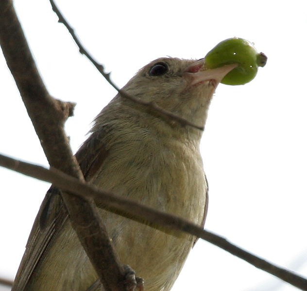 Tickell's Flowerpecker or Pale-billed Flowerpecker Dicaeum erythrorhynchos at Lotus Pond, Hyderabad, India.